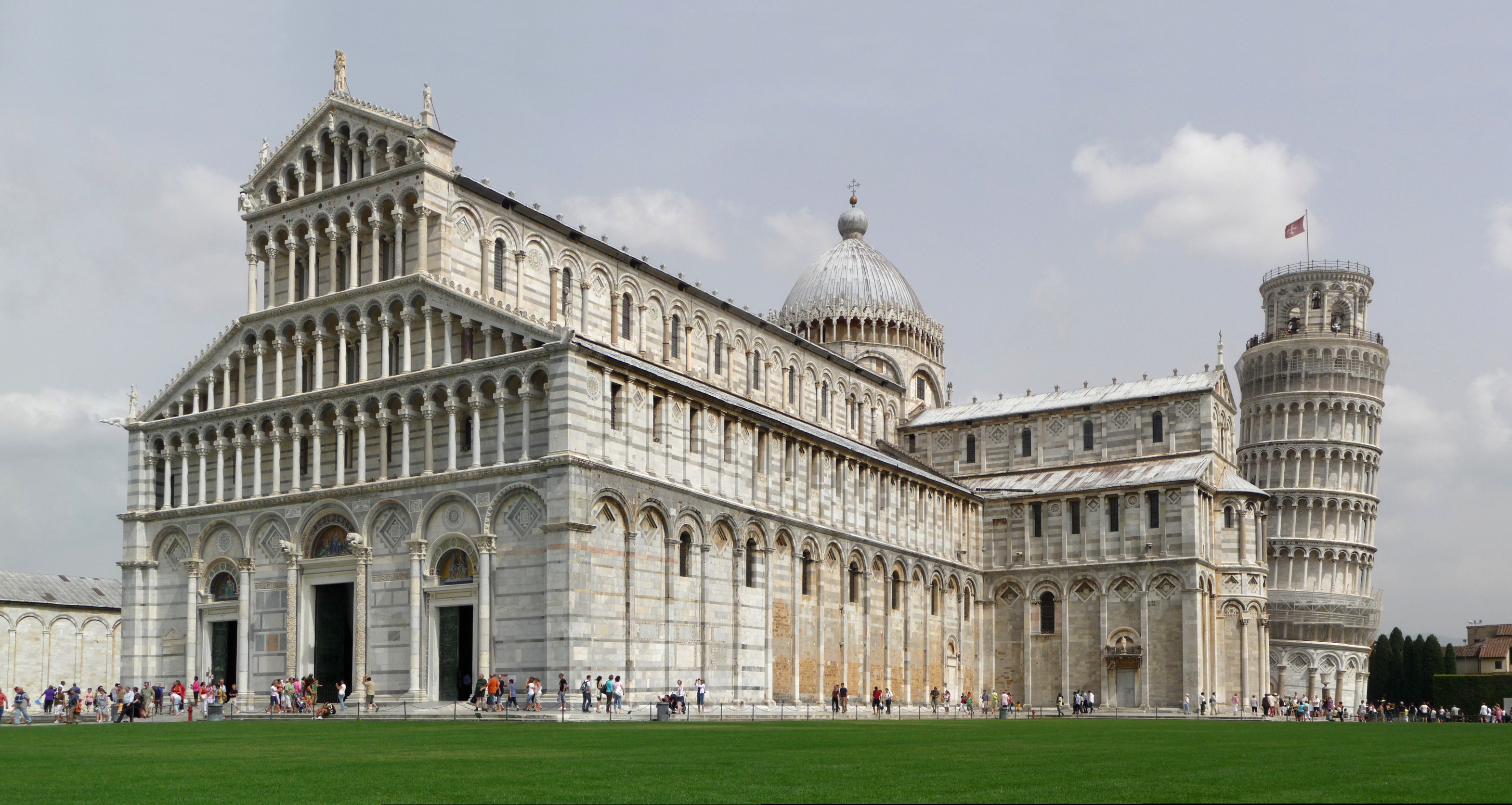 Cathedral of Pisa (Duomo di Pisa), Pisa, Italy